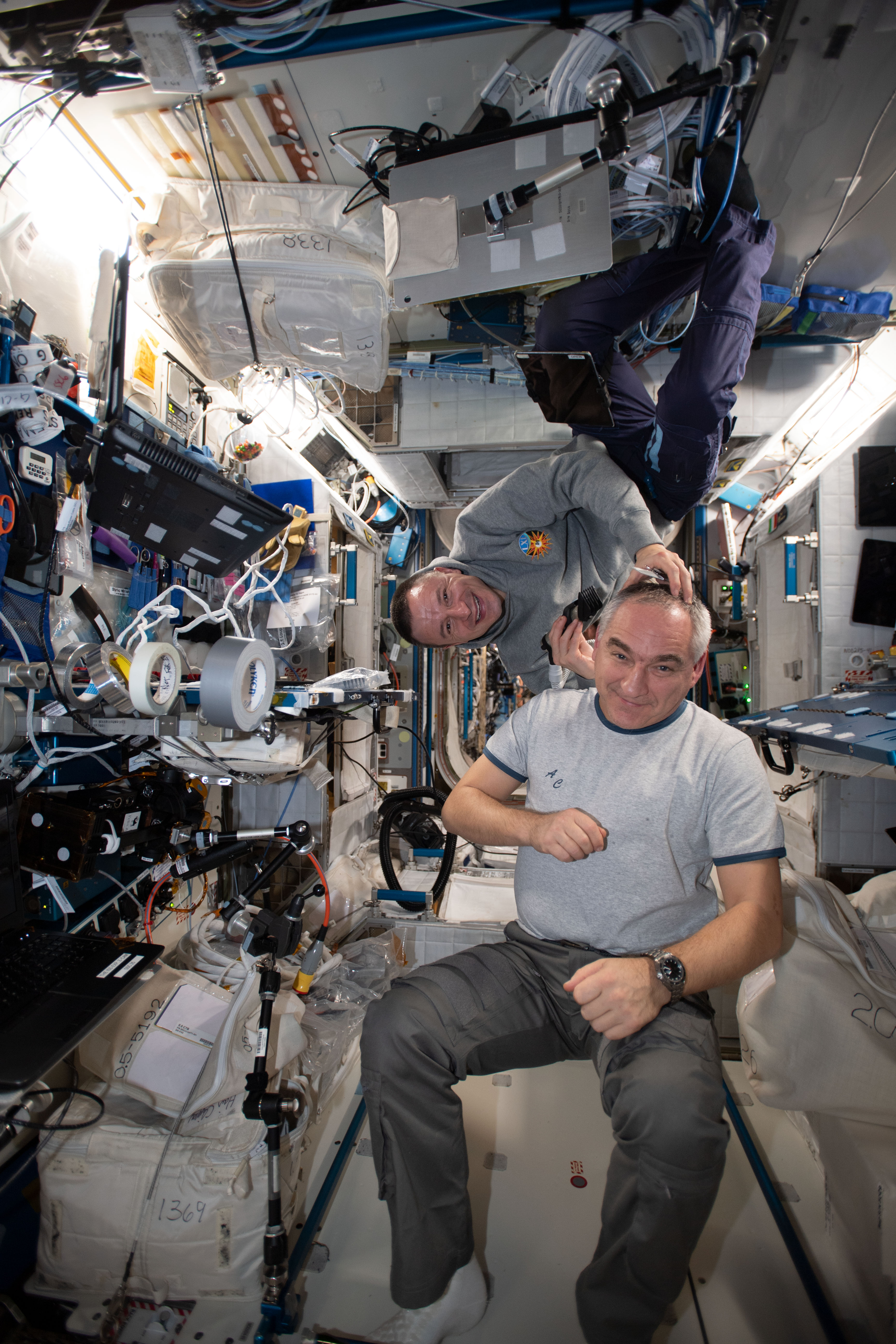 NASA astronaut Andrew Morgan (up) took a break from his engineering and science duties aboard the International Space Station to trim the hair of Roscosmos cosmonaut Alexander Skvortsov. A vacuum is attached to the clippers that draws the loose hair in to keep the cabin atmosphere clean.